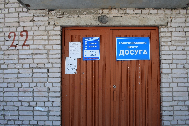 The house №22S in Tilstikovo village. Novgorodsky district, Novgorod oblast, Russia